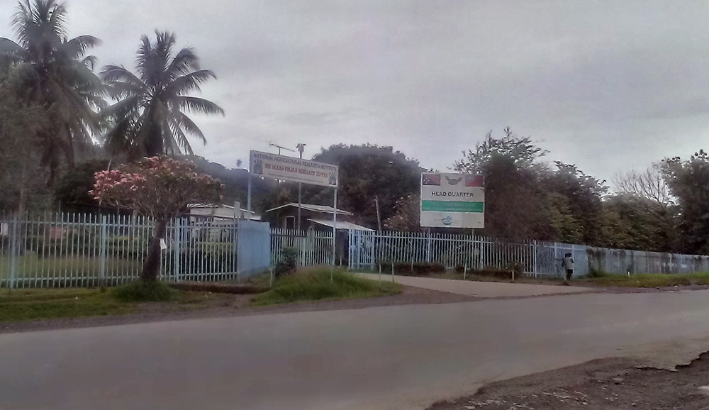 Panoramic photo of National Agricultural Research Institute at 9 Mile, on Nadzab Road, Lae Papua New Guinea